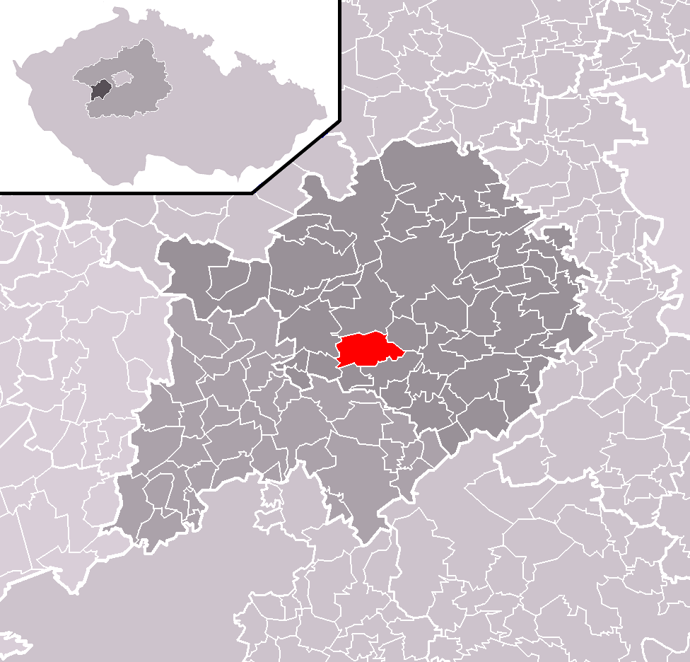 Location of Tmaň municipality within Beroun District and administrative area of Beroun as a Municipality with Extended Competence.